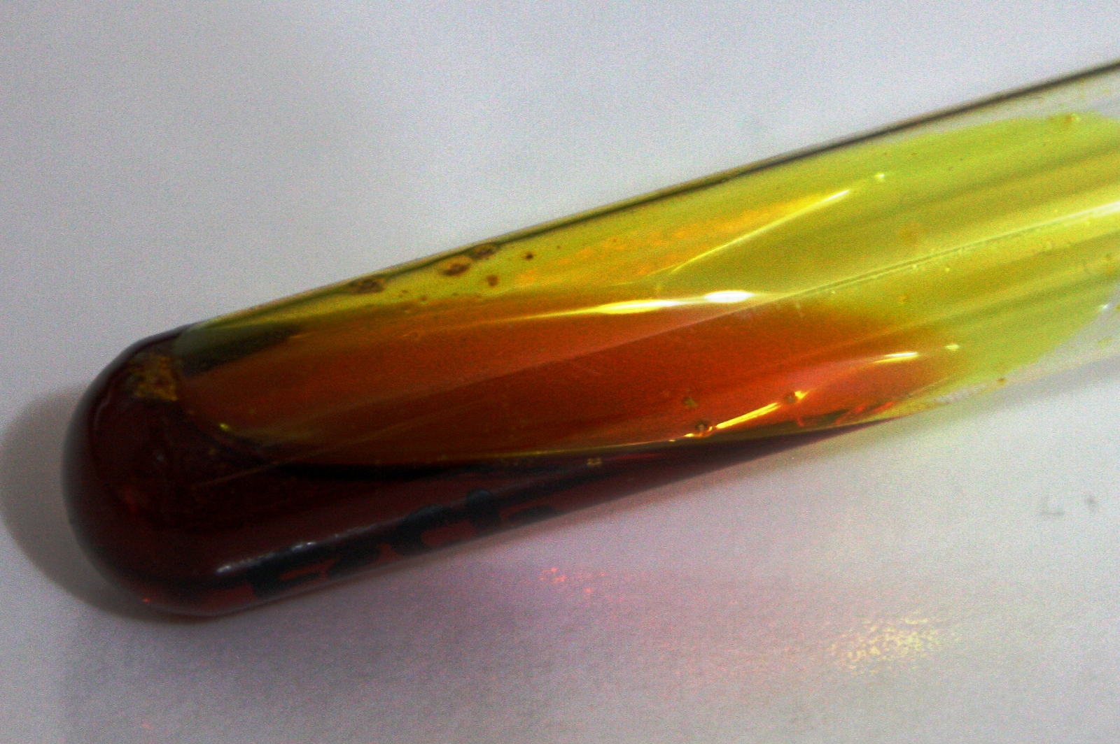 Eisen(III)chlorid in wässriger Lösung (FeCl3 · 6 H2O)